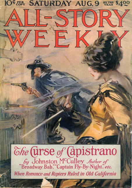 The Cover to The Curse of Capistrano by Johnston McCulley, The All-Story Magazine, August, 9, 1919